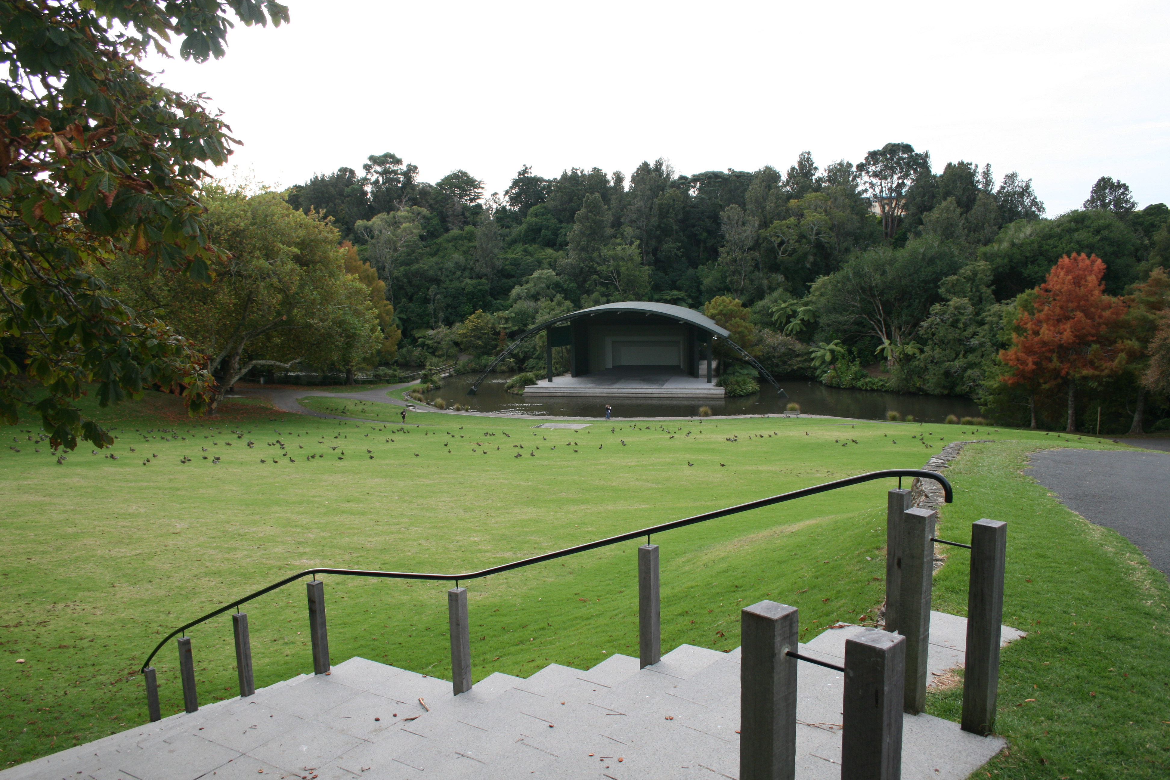 The Bowl of Brooklands, a natural amphitheatre with a capacity of 18,000 in New Plymouth, New Zealand. Established in 1957, the stage was redesigned in 1998.